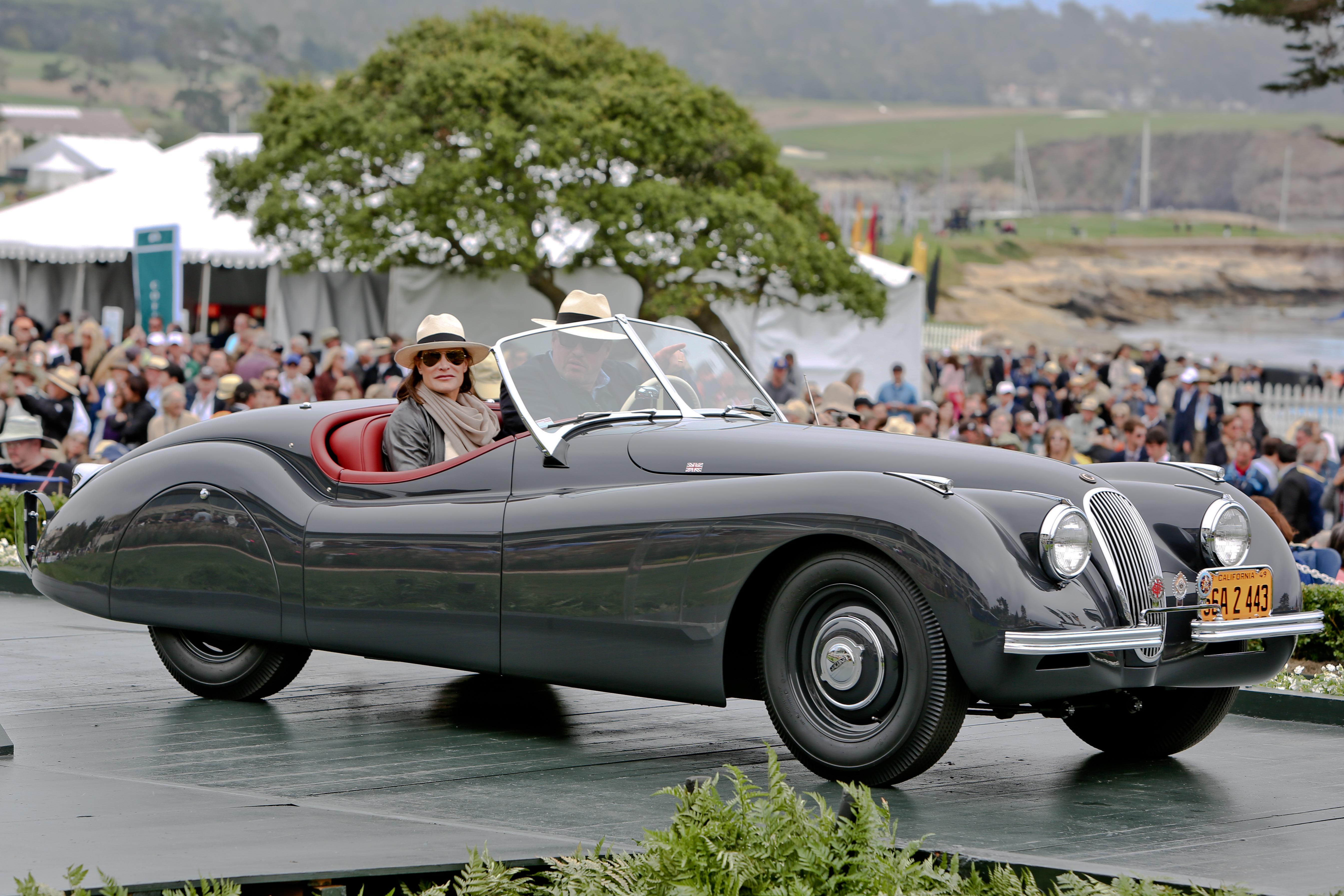 1949 XK120 wins Best of Class at Pebble Beach 2012